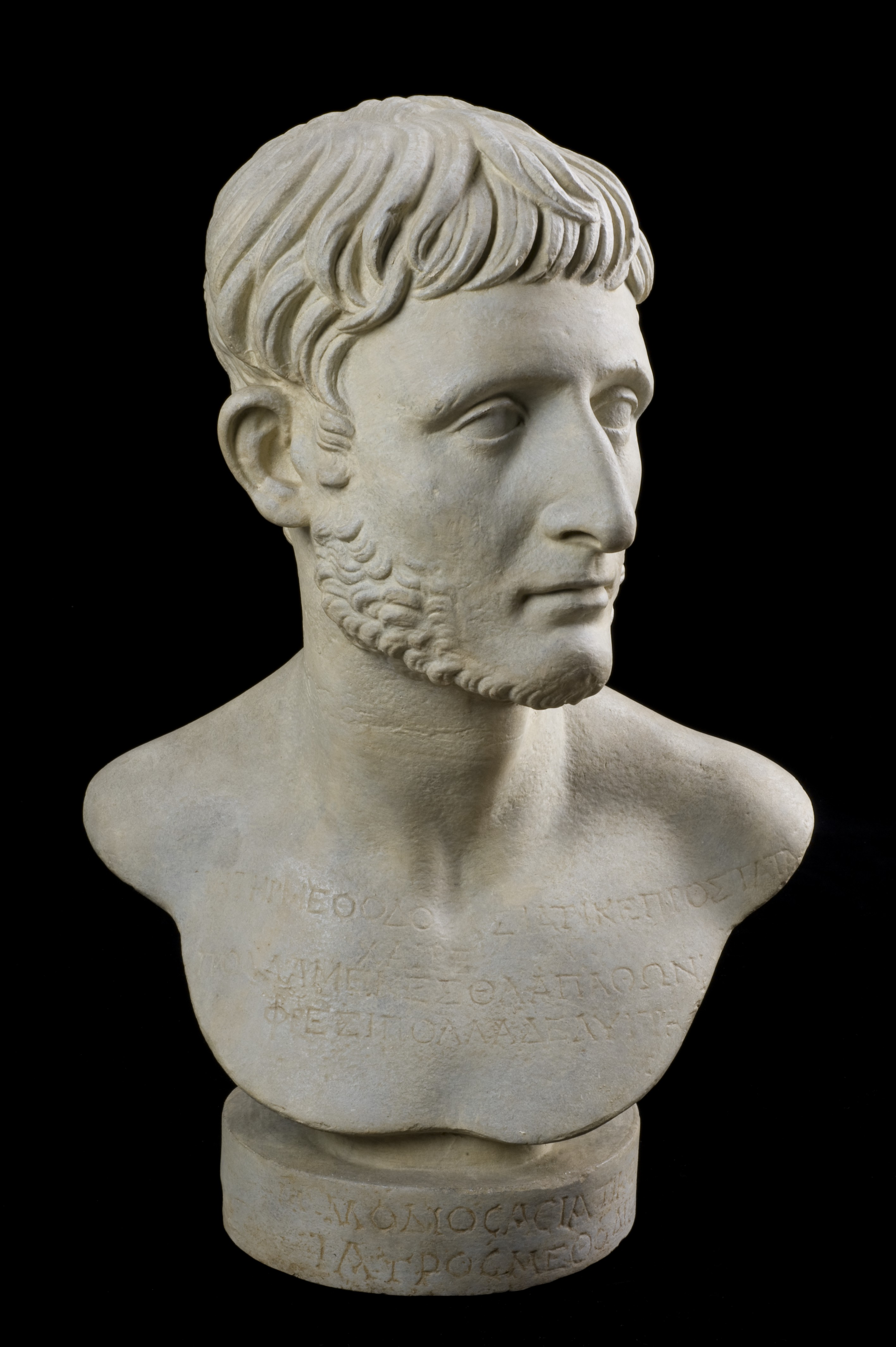 Plaster replica of a Roman bust shows Marcus Modius Asiaticus, Roman, 2nd century AD. Black background. 3/4 angle. Wellcome Images